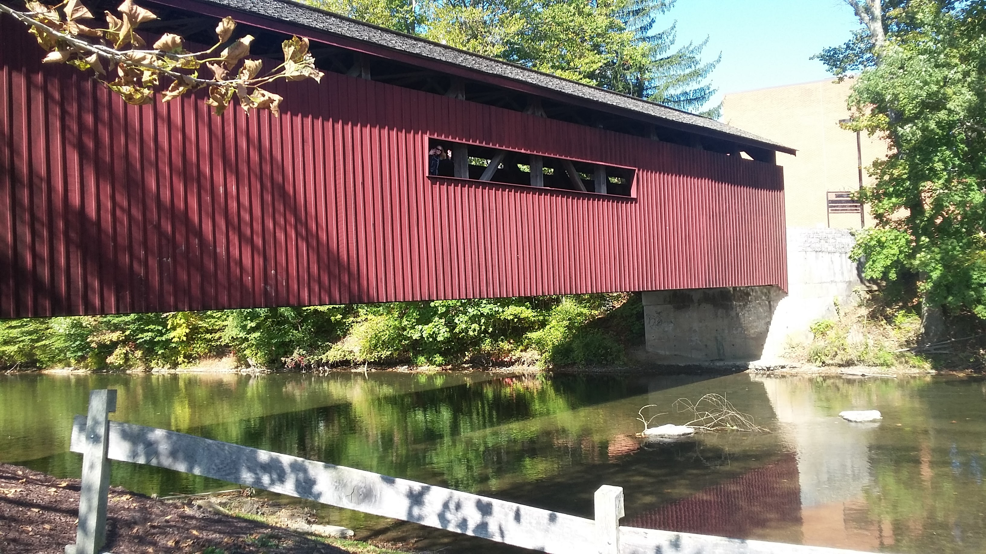 Covered bridge at Messiah College in Mechanicsburg, Pennsylvania